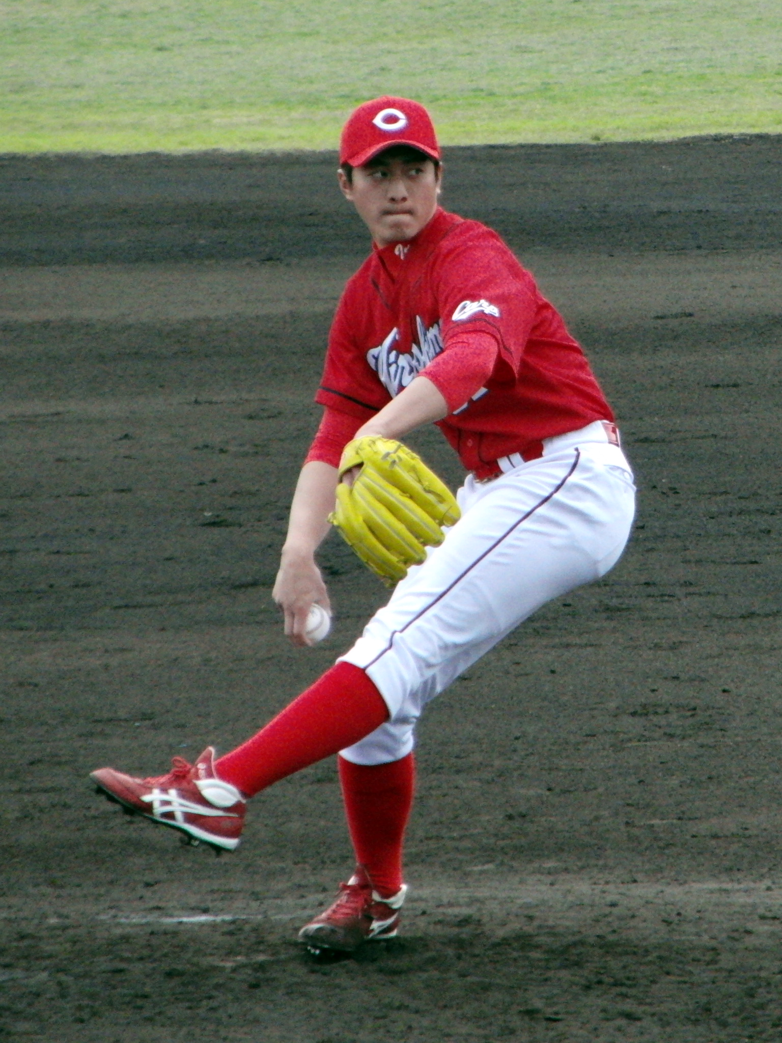 Keisuke Imai, pitcher of the Hiroshima Toyo Carp, at Gannosu Baseball Ground.